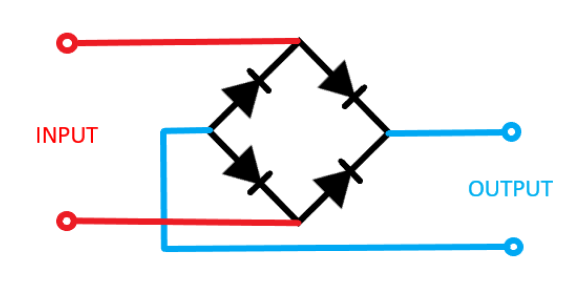 Rangkaian Paling Sederhana dari Dioda Bridge